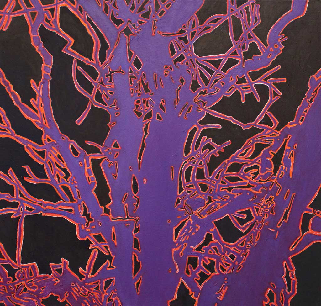 Painting by artist Merle Temkin, TulipTree; oil on canvas; 36" x 38" 2014